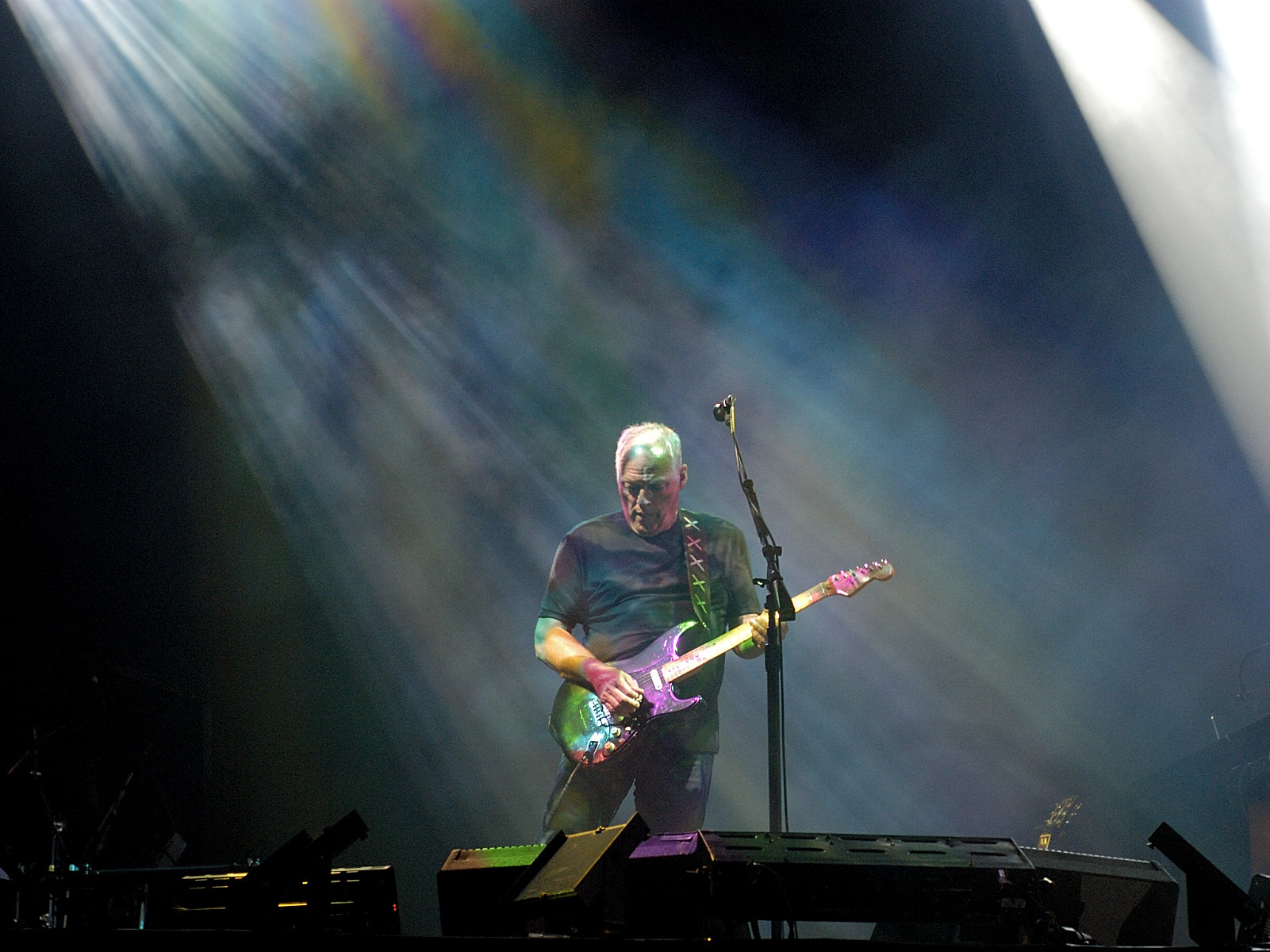 David Gilmour in concert in Munich, Germany